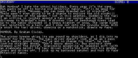 Opening screen of Humbug, public domain text adventure game.